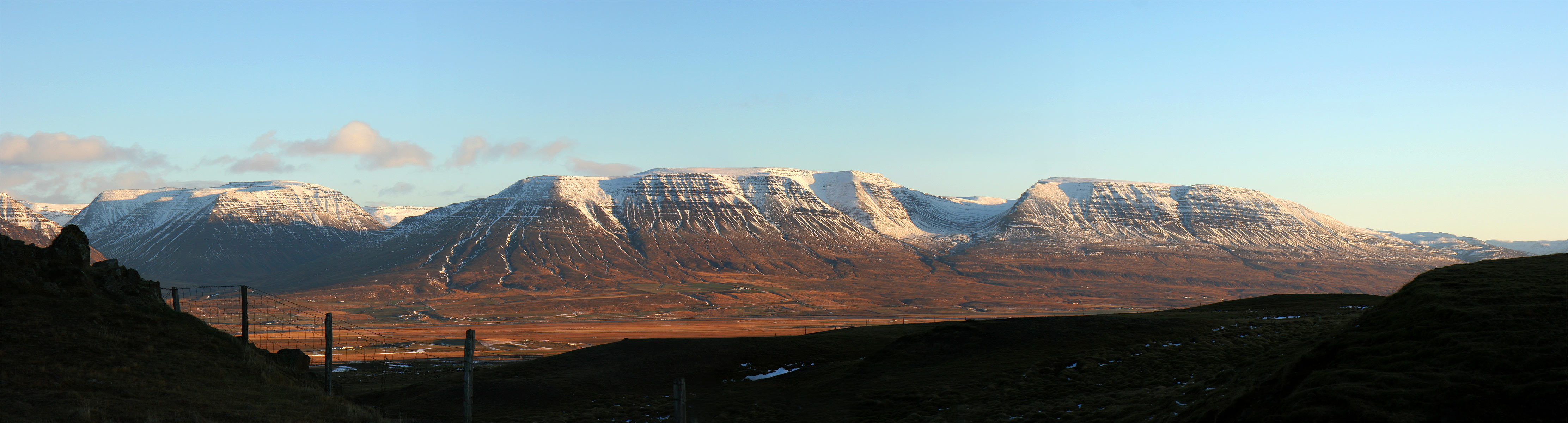 East from Vatnsskarð to Blönduhliðarfjöll, November 21 14:05 Iceland, November 2007 Photo by me user:debivort (or friend, with permission given to freely license photo).